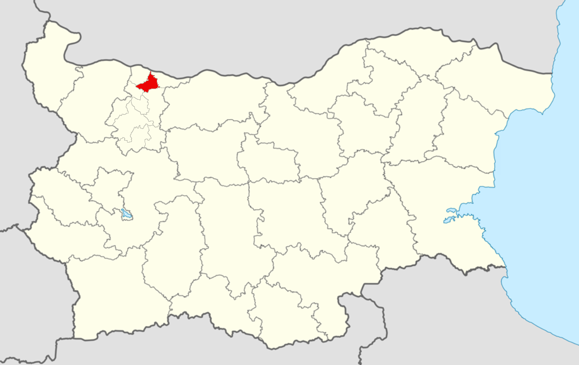 Location map of Mizia Municipality within Bulgaria and Vratsa Province.